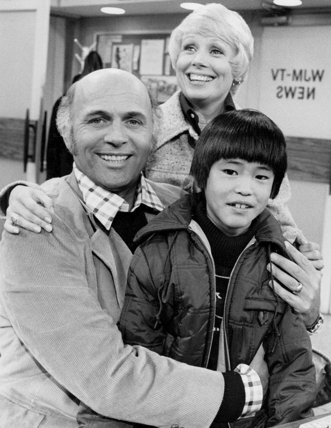 Murray (Gavin McLeod) and Marie (Joyce Bulifant) Slaughter have several lovely daughters, but Murray longs for a son. The couple decides to fix the problem by adopting a boy (Michael Higa). From The Mary Tyler Moore Show.